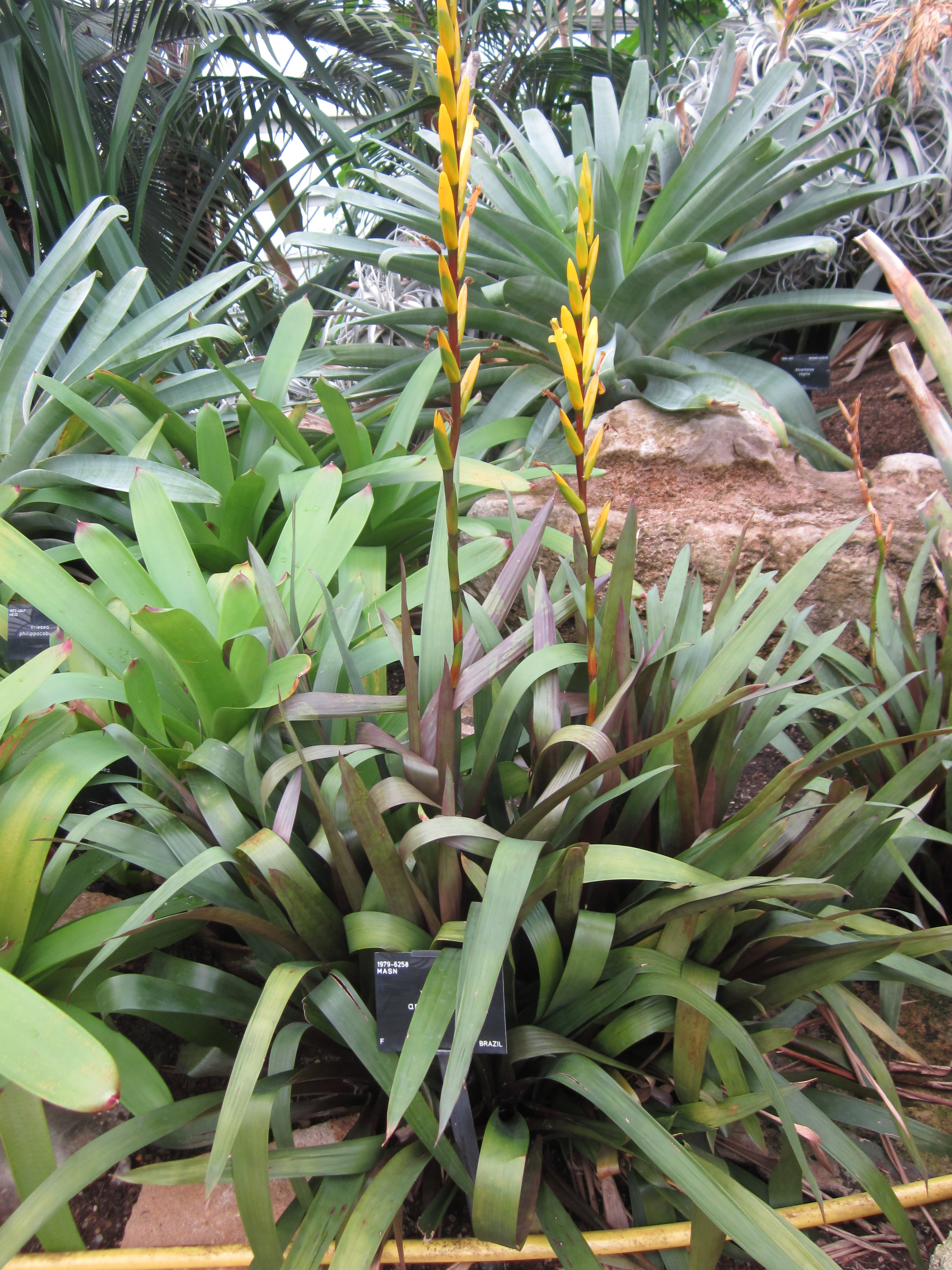 Vriesea amethystina in Kew Gardens.